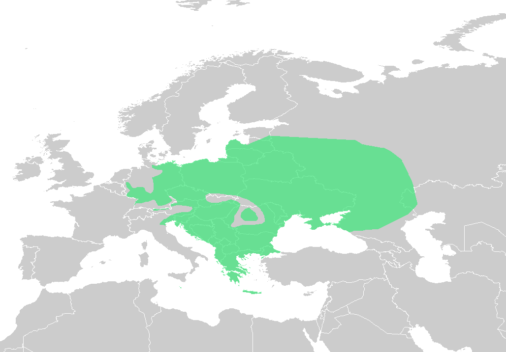 Distribution map of Pseudepidalea viridis from IUCN. Description here.